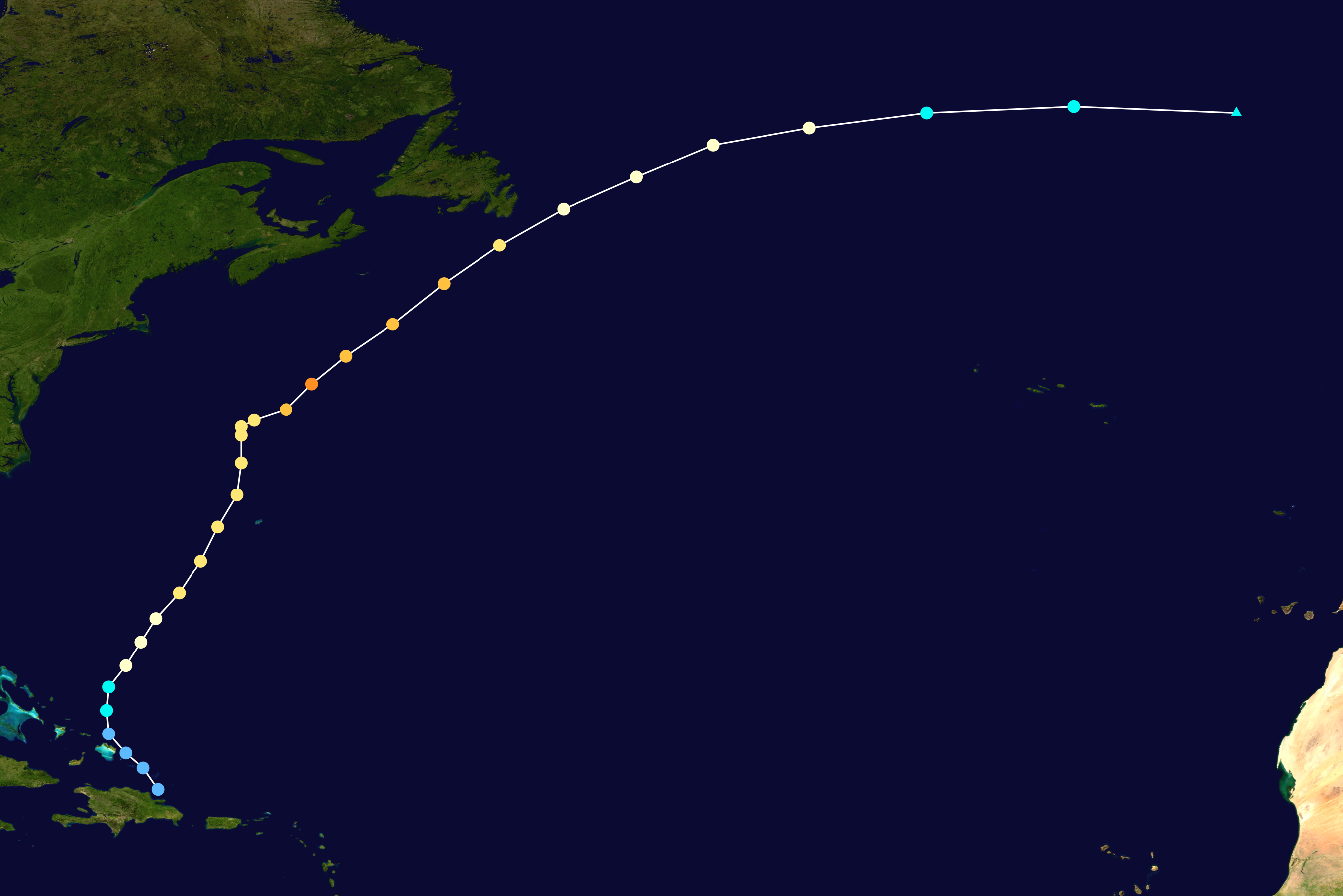 Hurricane Debby (1982) track. Uses the color scheme from the Saffir-Simpson Hurricane Scale.